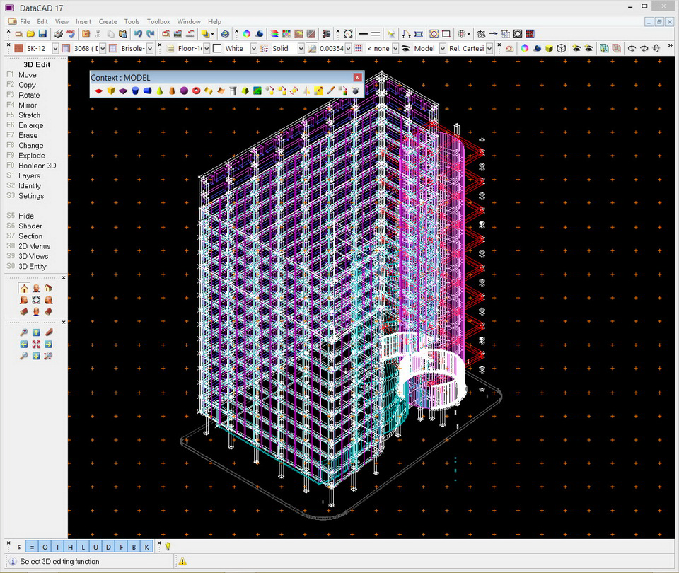 DataCAD Model